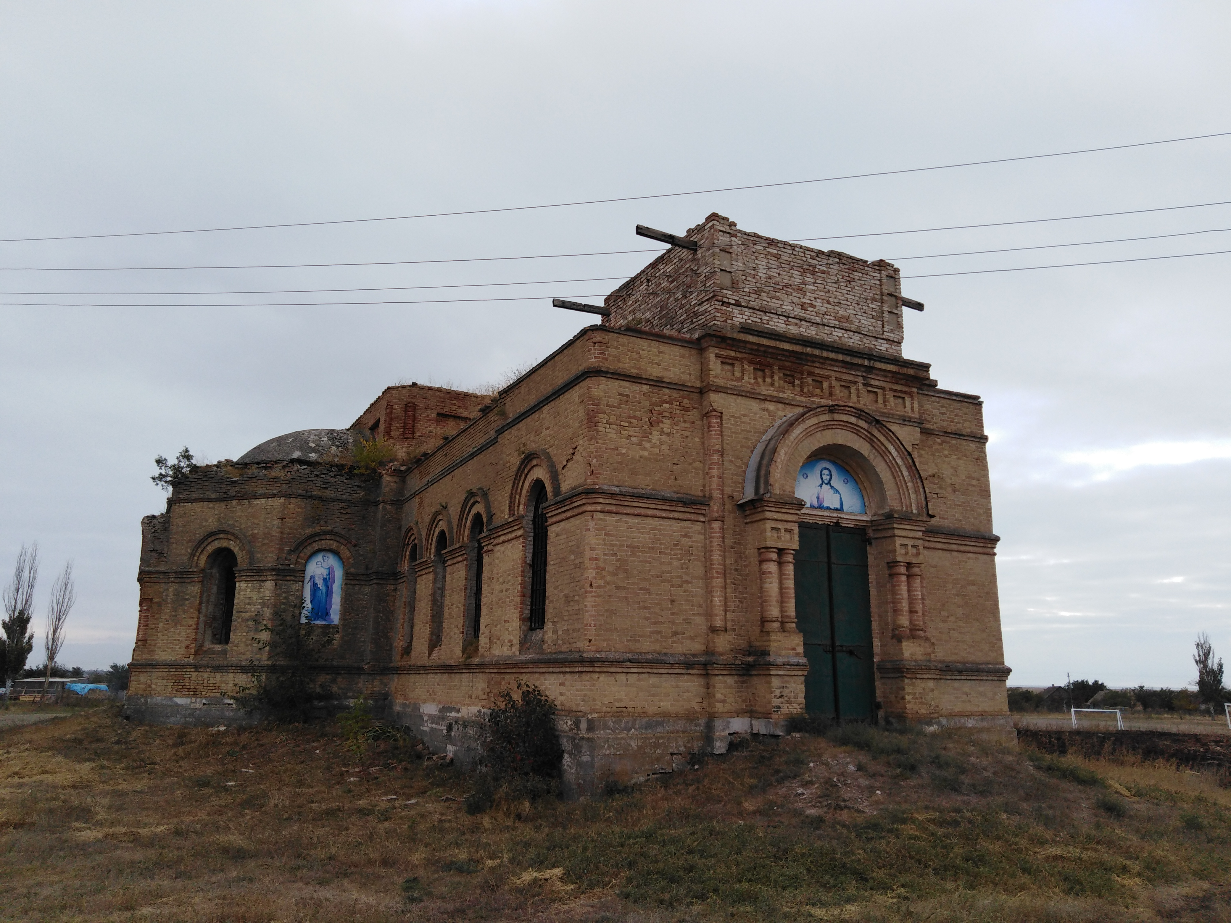 Ukraine. Zaporozhye region, Prymorsk Raion. Raynovka. Central Street. Ruined temple